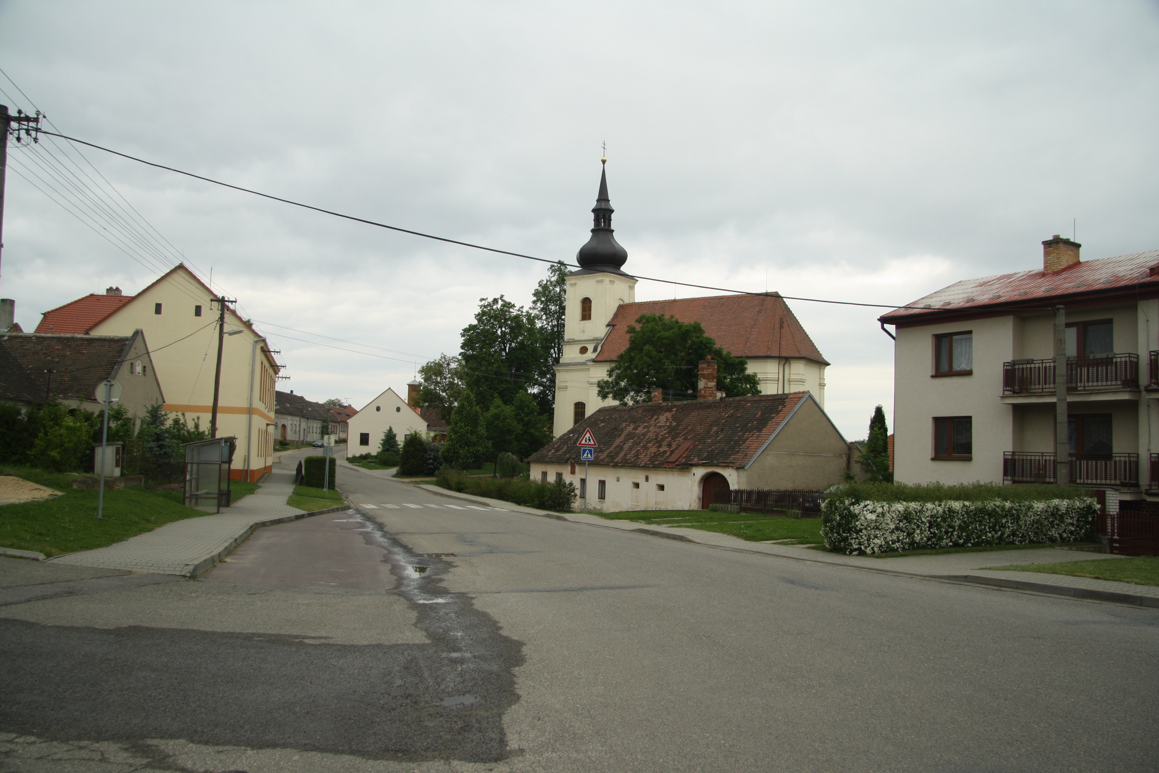 Center of Lukov, Třebíč District.